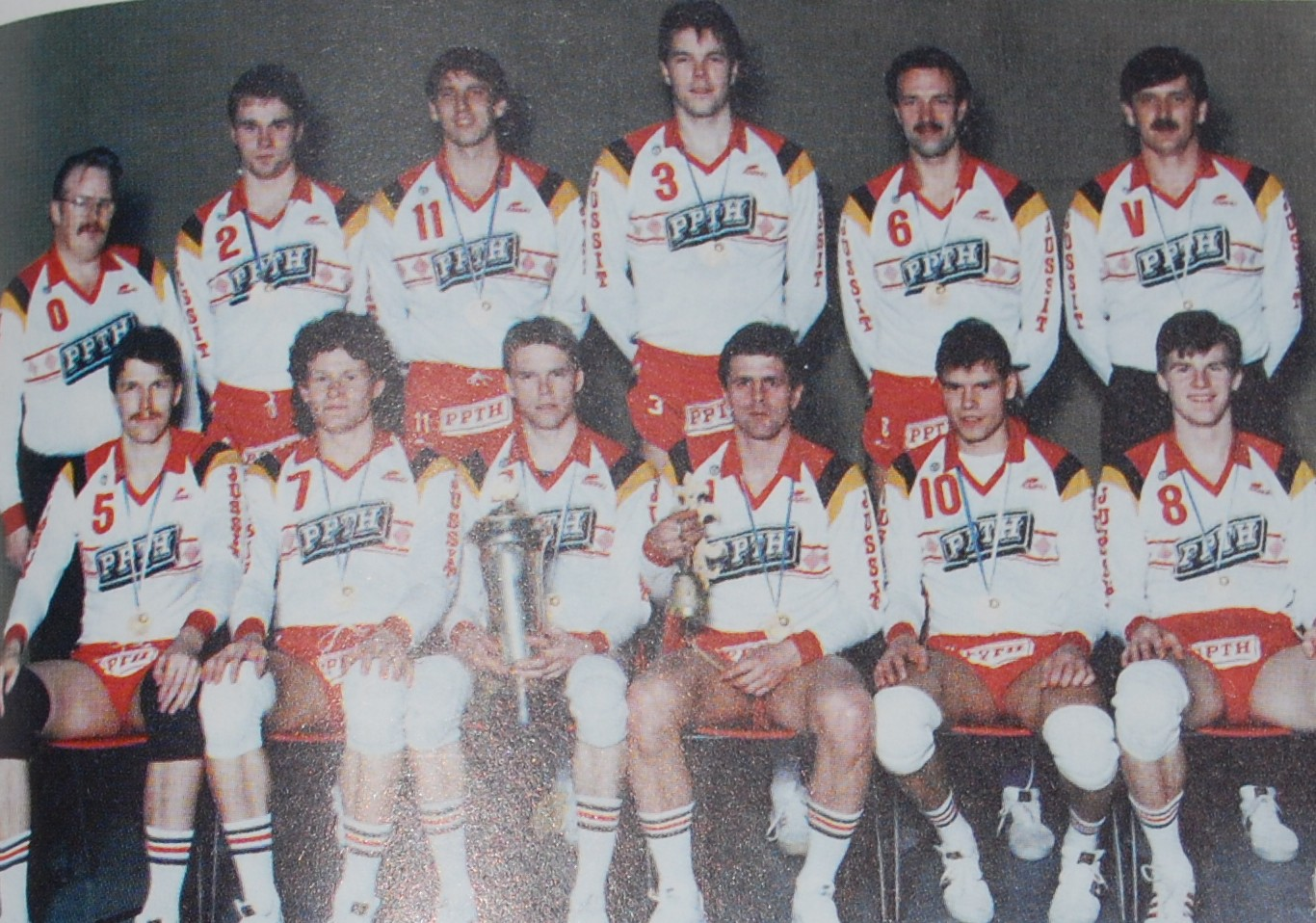 Finland Champion volleyball 1986 Seinäjoen Maila-Jussit